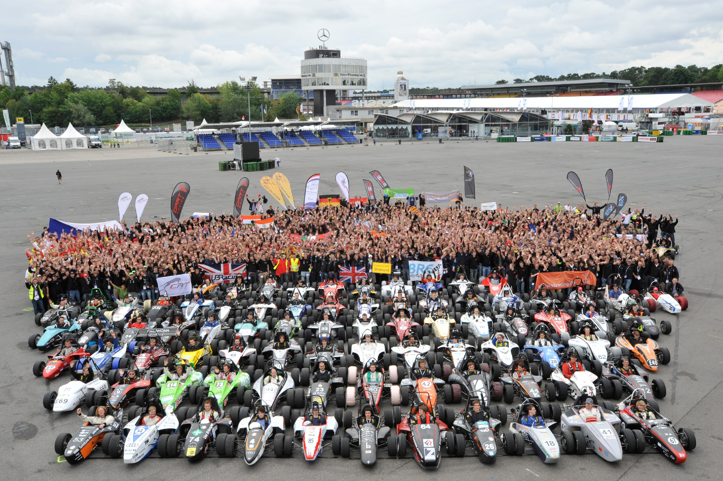 Group Picture Formula Student Germany 2010